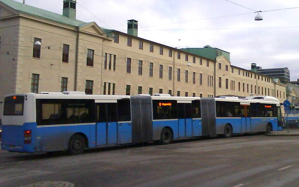 Bus, extra long size (Volvo 7500 Bi-articulated with Volvo B9S chassis), on line 16 at Kapellplatsen in Gothenburg, Sweden.